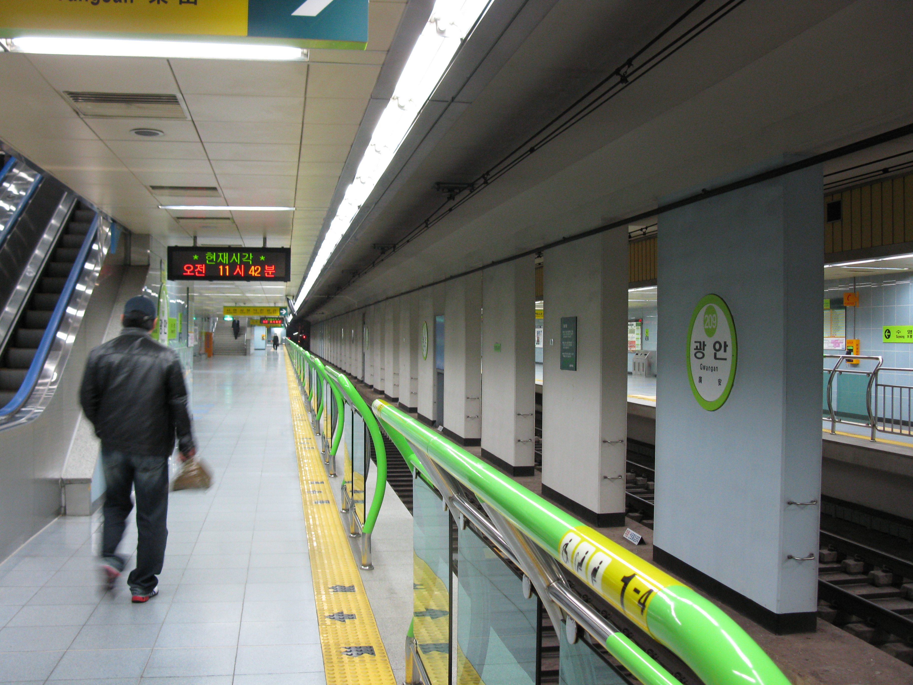 Gwangan Station platform (Busan Subway Line 2)